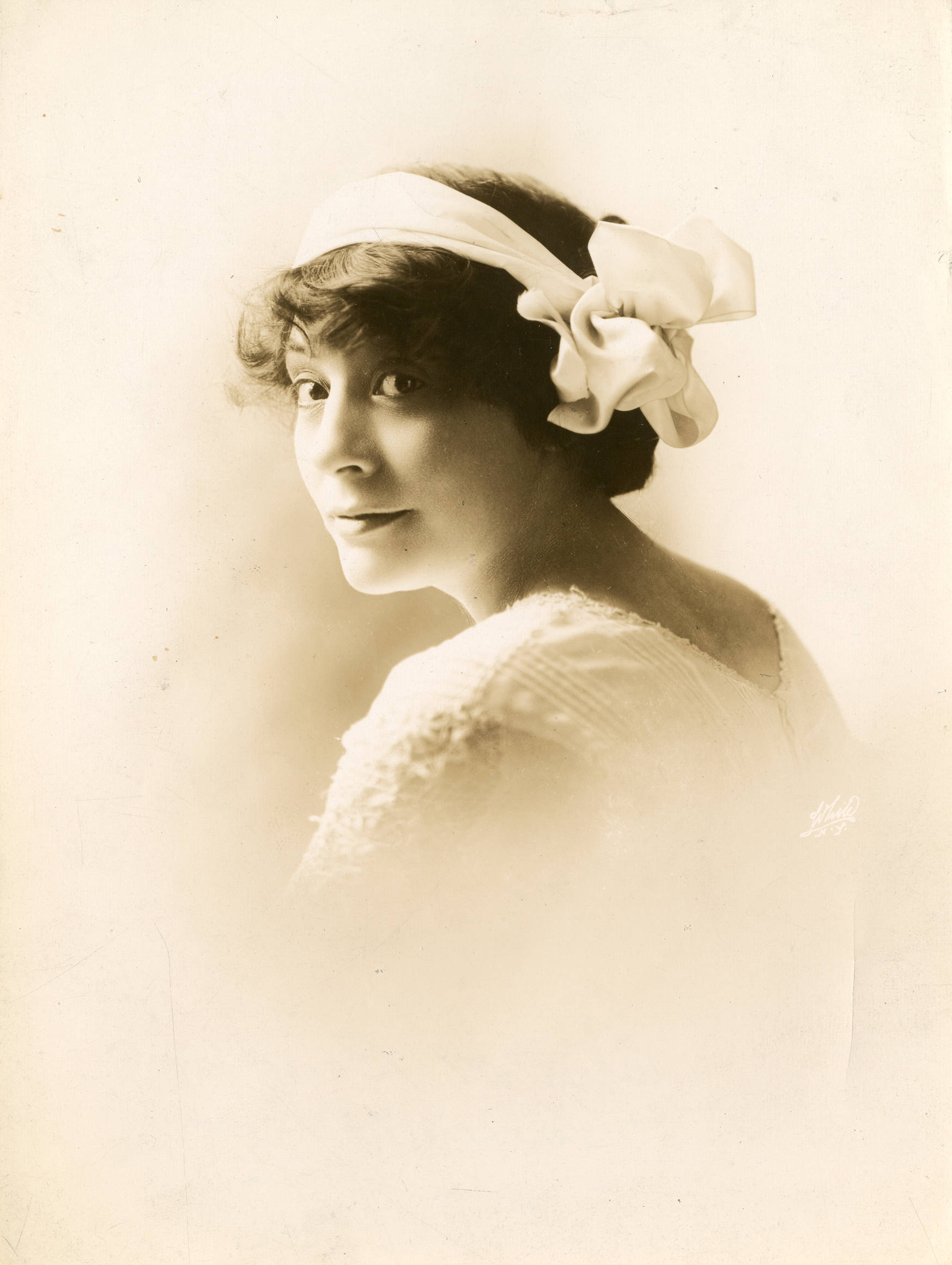 Stage actress Elizabeth Brice. Subjects: actresses